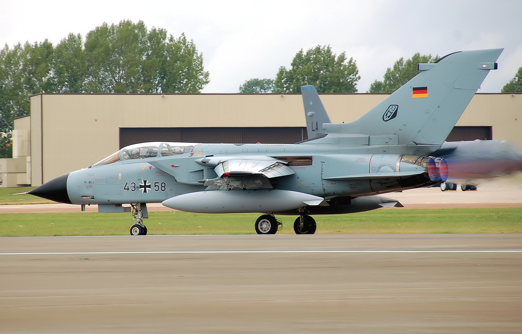 A German Air Force Panavia Tornado IDS (s/n 43+58) takes off with reheat at the 2009 Royal International Air Tattoo, Fairford, Gloucestershire (UK), on departures day, 20 July 2009. The Tornado was assigned to the Jagdbombergeschwader 33 (33rd Fighter-Bomber Wing) based at Büchel air base, Rhineland-Palatinate (Germany).